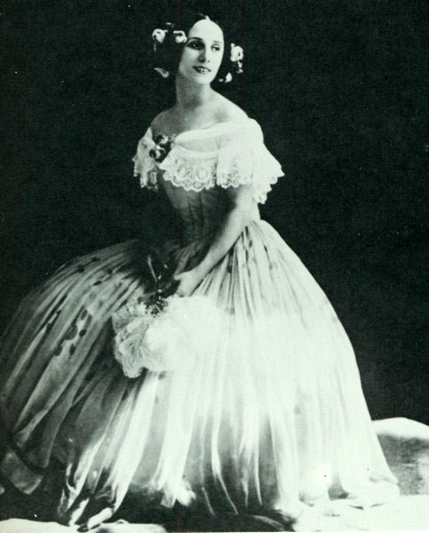 Anna Pavlova in Invitation to the Dance by Carl Maria von Weber, London.